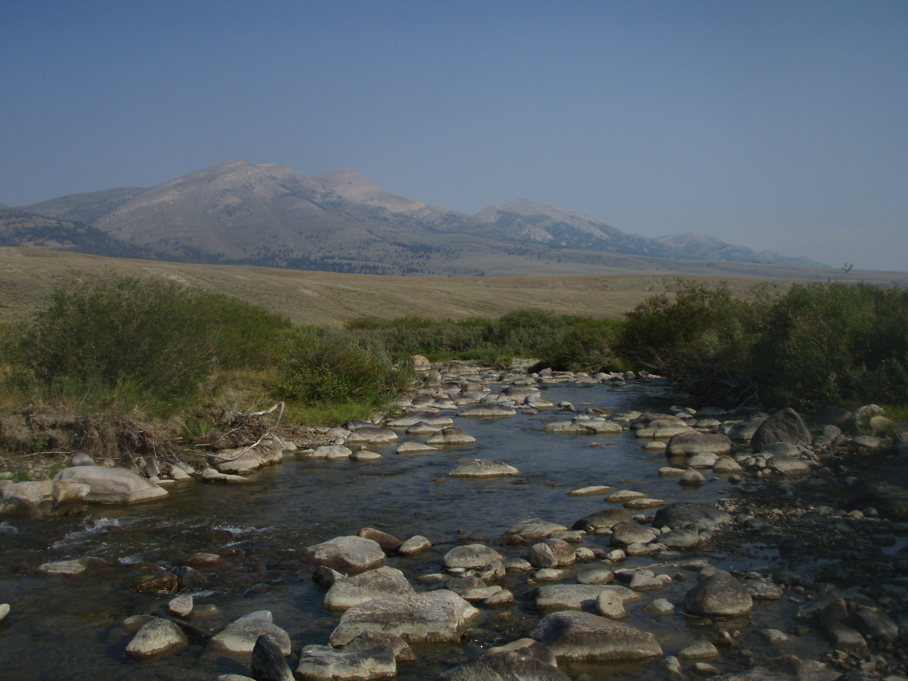 Upper Ruby River, Beaverhead County, Montana Summer 2013